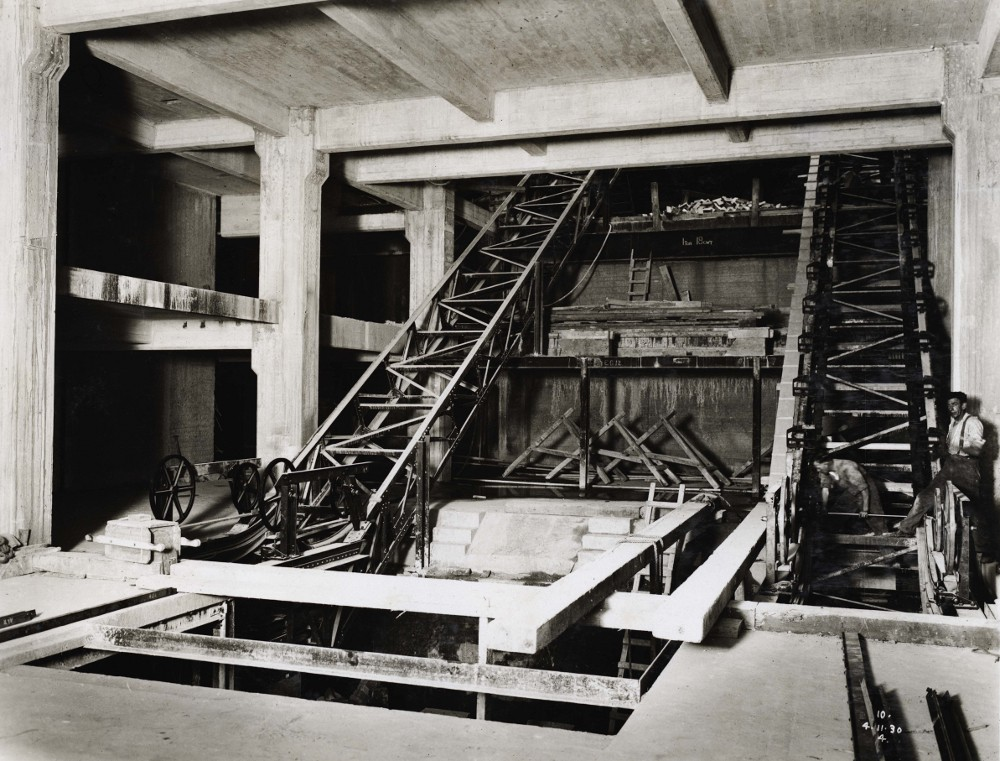 Title: Wynyard Station - Erecting Escalators Dated: 04/11/1930 Digital ID: 12685_a007_a00704_8735000023r Rights: We'd love to hear from you if you use our photos/documents. Many other photos in our collection are available to view and browse on our website using Photo Investigator.